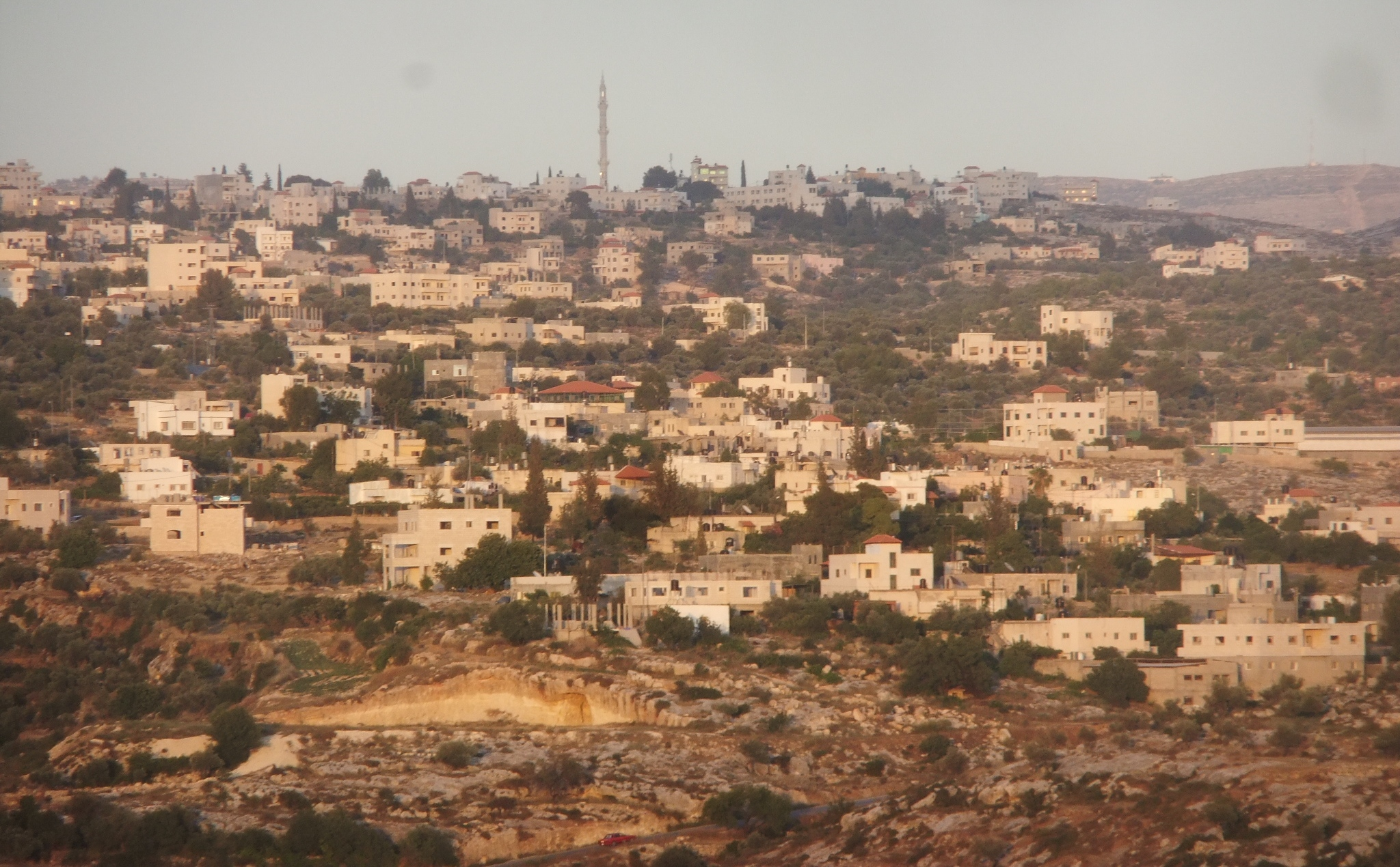 Bilin from Modiin Illit